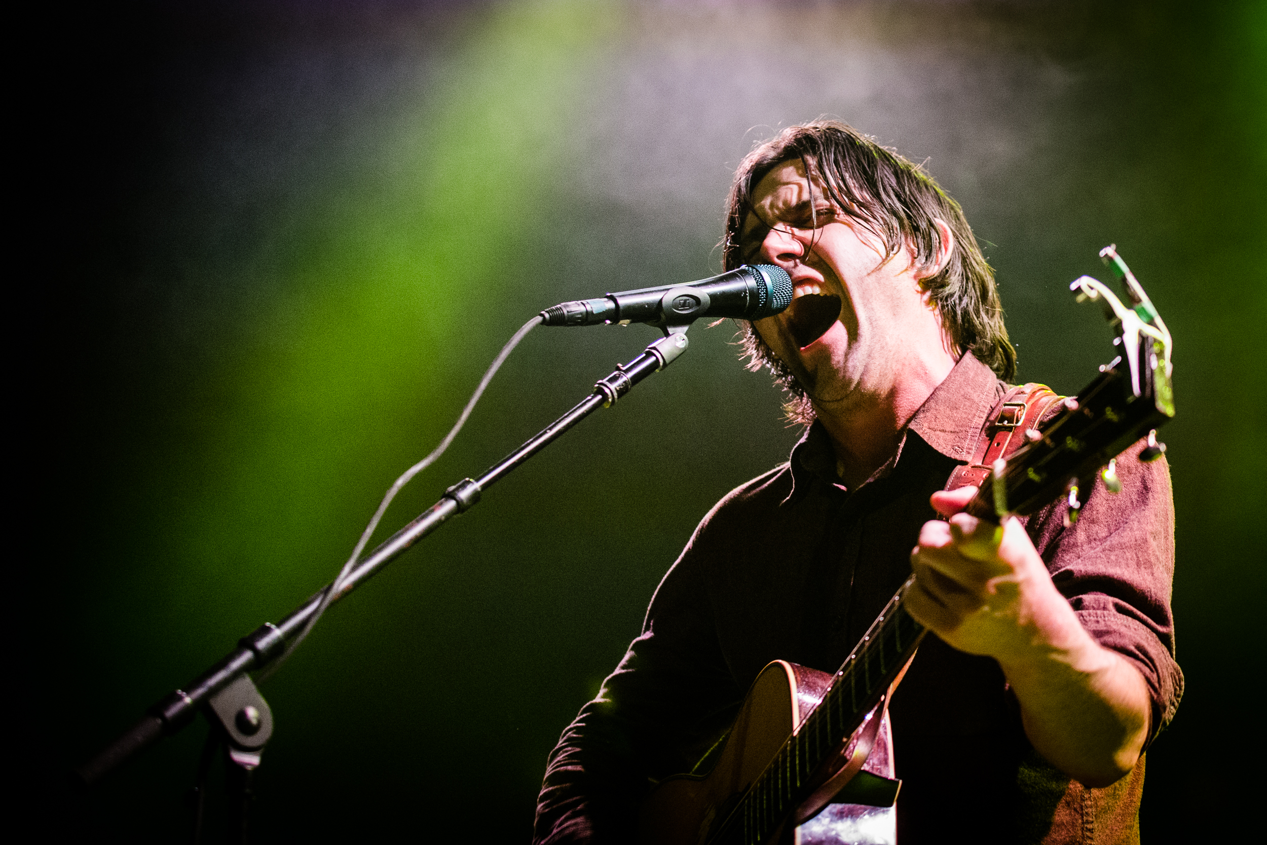 Conor Oberst at The Fillmore in San Francisco, October 2014.